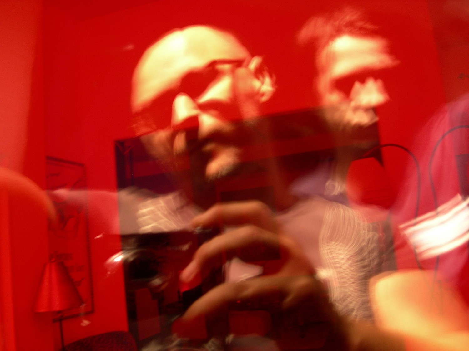 Infobox image for Chicanery band Wikipedia page